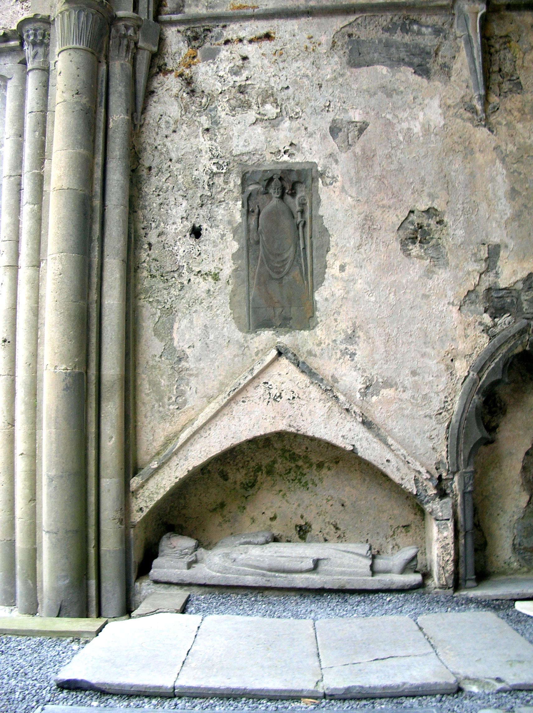 Corecomroe Abbey, Statue